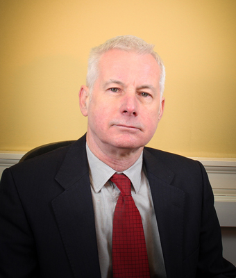 Irish politician Seán Crowe of Sinn Féin, in 2016.